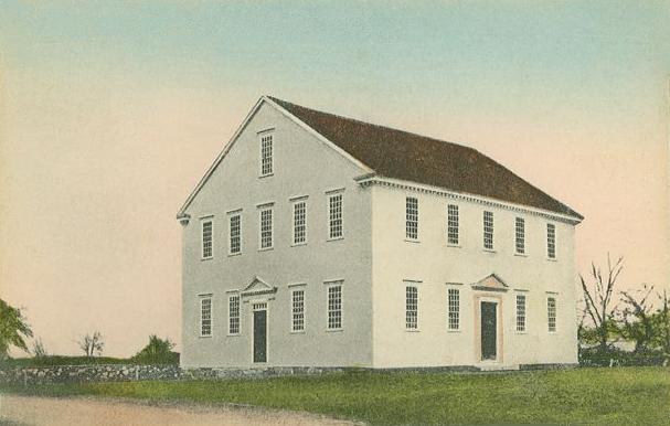 Old Meeting House, built 1774, Sandown, NH; from a 1908 postcard.